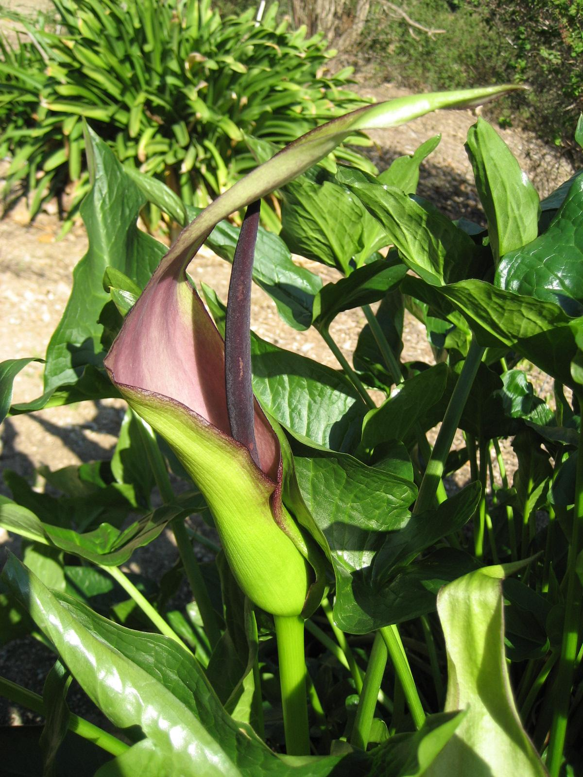 Photographed at Huntington Gardens (Los Angeles) in March